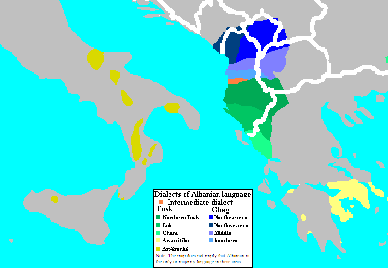 The map on the dialects of the Albanian language. According to "The Albanian Language", Albanian Academy of Sciences, Toena, 2000. The map does not imply that the Albanian language is the majority or the only spoken language in these areas. The map is not perfect and has small errors (concerning the Italo-Albanians, not present in the lower tip of Calabria) and in the distribution of the Albanian language in the Balkans (also in northern Kosovo it is spoken, although there is a Serbian-Slavic minority; while the Albanian linguistic zones in Sicily and Campania in Italy, in Epiro Cham, and in Serbia, are wider.